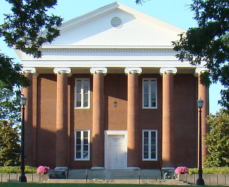 Giddings Hall on the campus of Georgetown College in Georgetown, Kentucky. The building was added to the U.S. National Register of Historic Places on February 06, 1973.